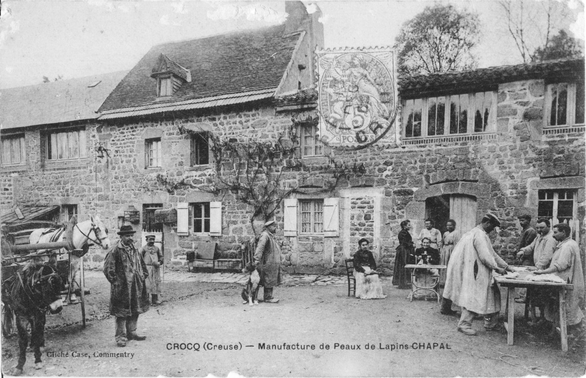 Supposedly, the rabbit fur workshop in Crocq (France), of the Chapal company (established 1832).